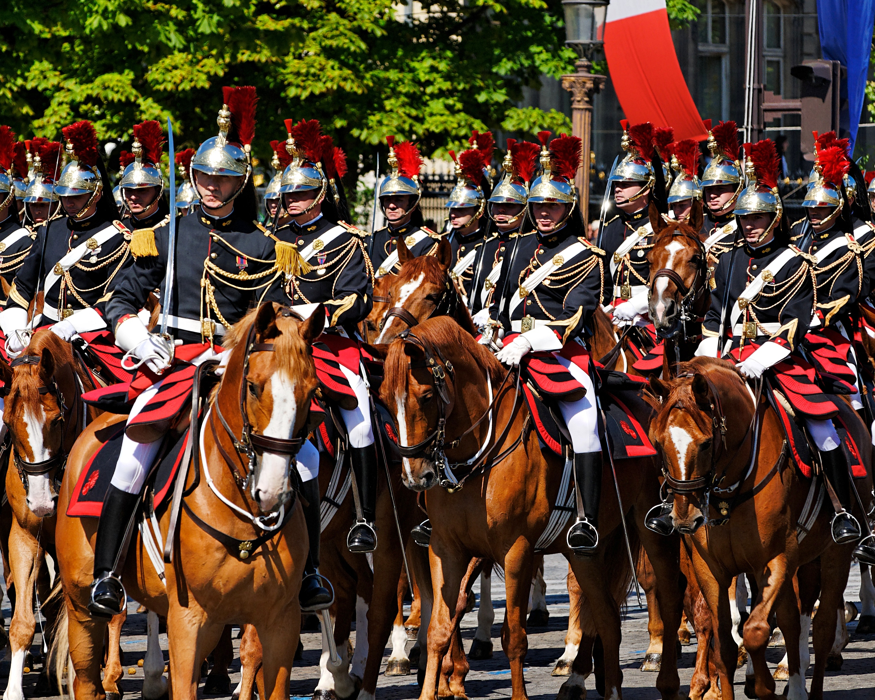 The Cavalry Regiment of the Republican Guard, Bastille Day 2008 military parade on the Champs-Élysées, Paris.